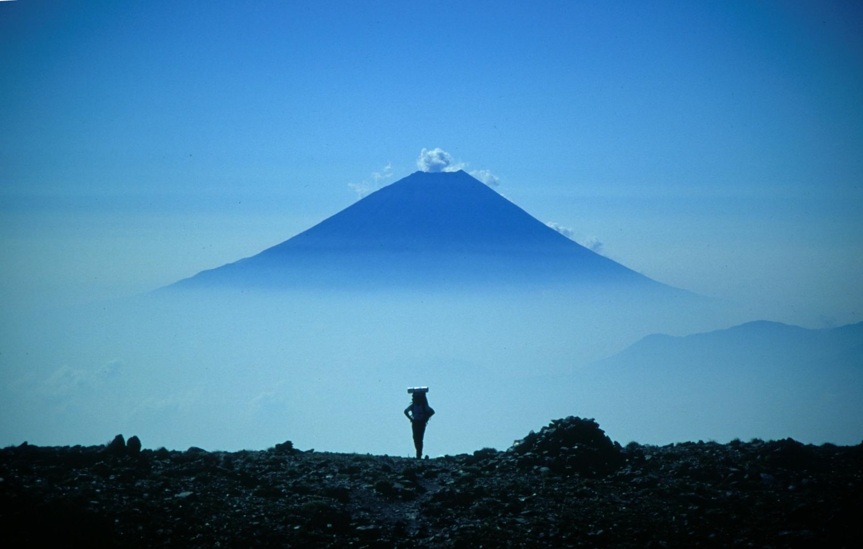 Mount Fuji from Mount Aino